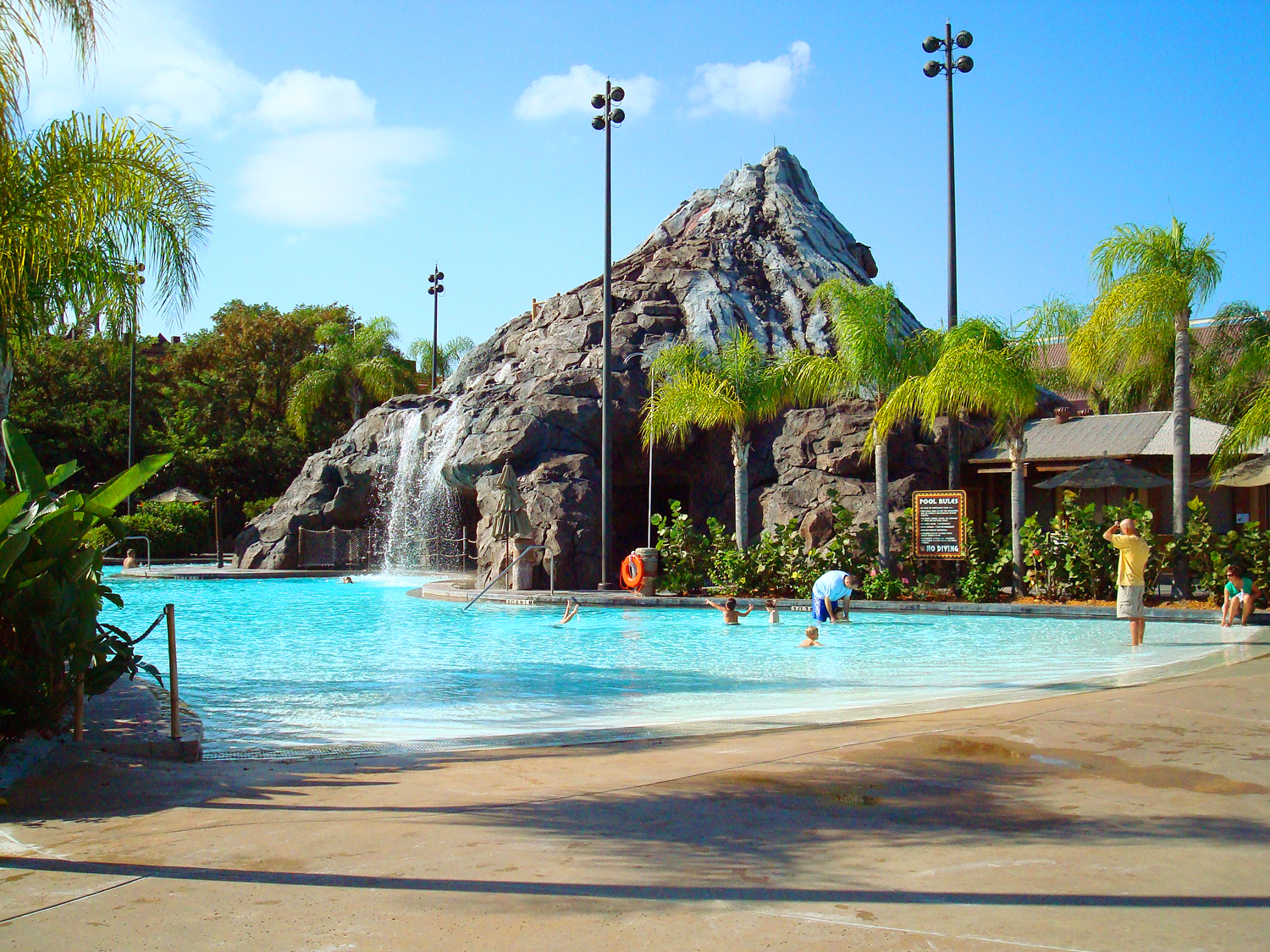 The Polynesian Resort's main themed pool, the Nanea Volcano Pool. Disney World, Florida.